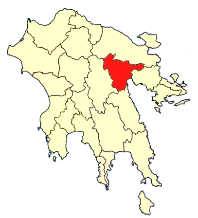 argos province